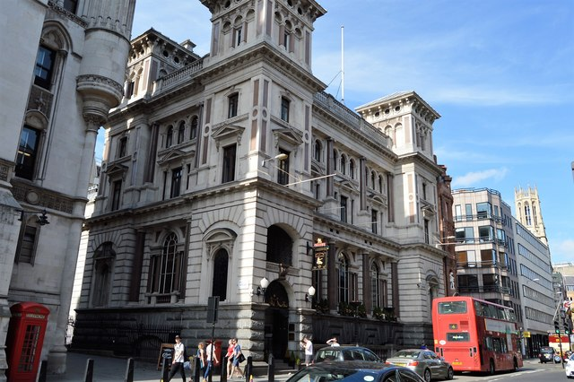 The Old Bank of England